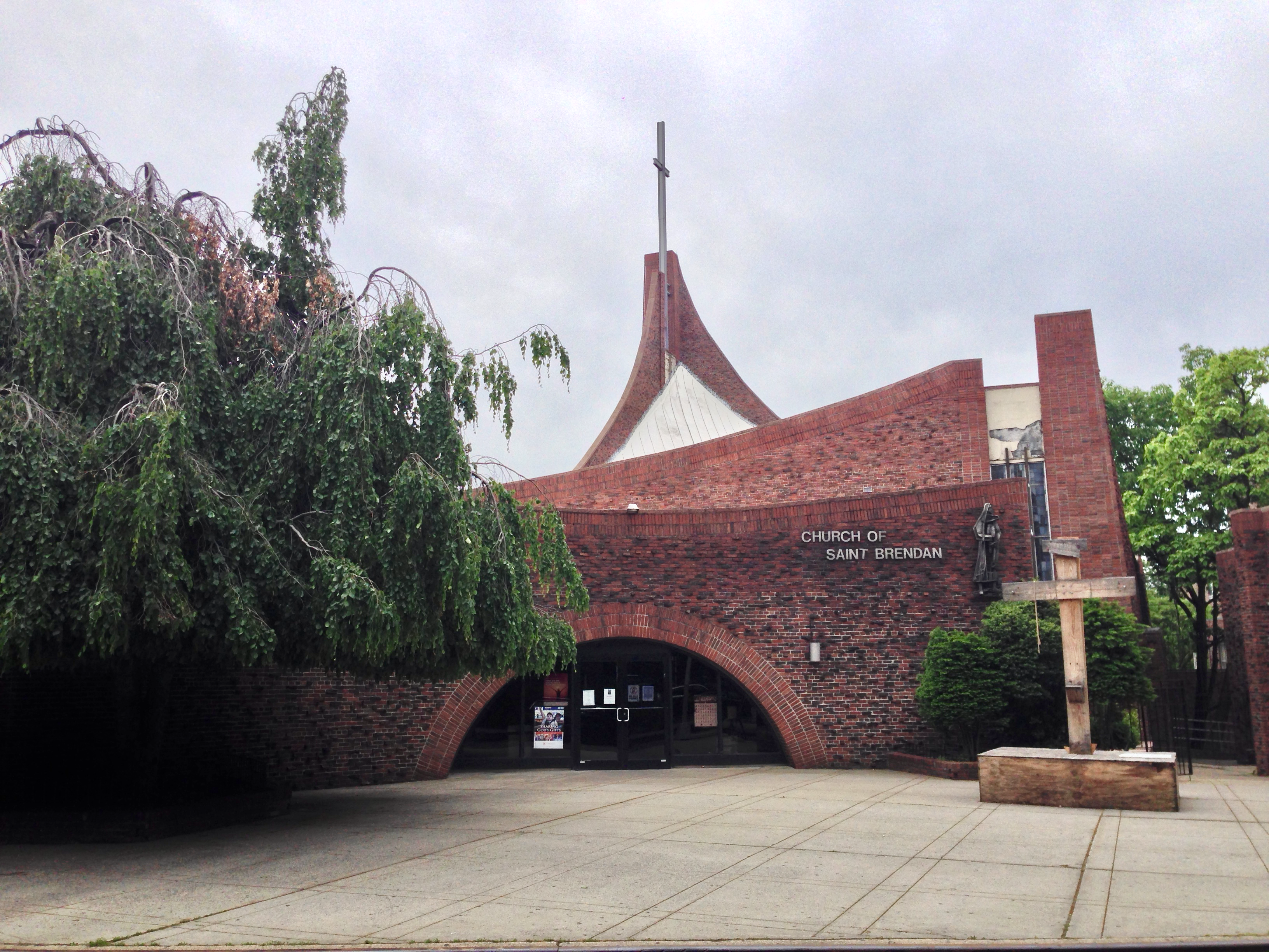 Church of Saint Brendan in Norwood, Bronx, NYC. Main entrance view.